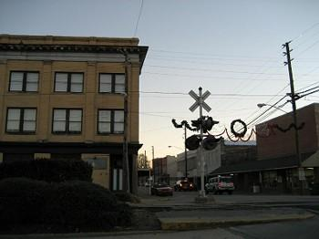 Hurst Building on Main Street, Robersonville, NC